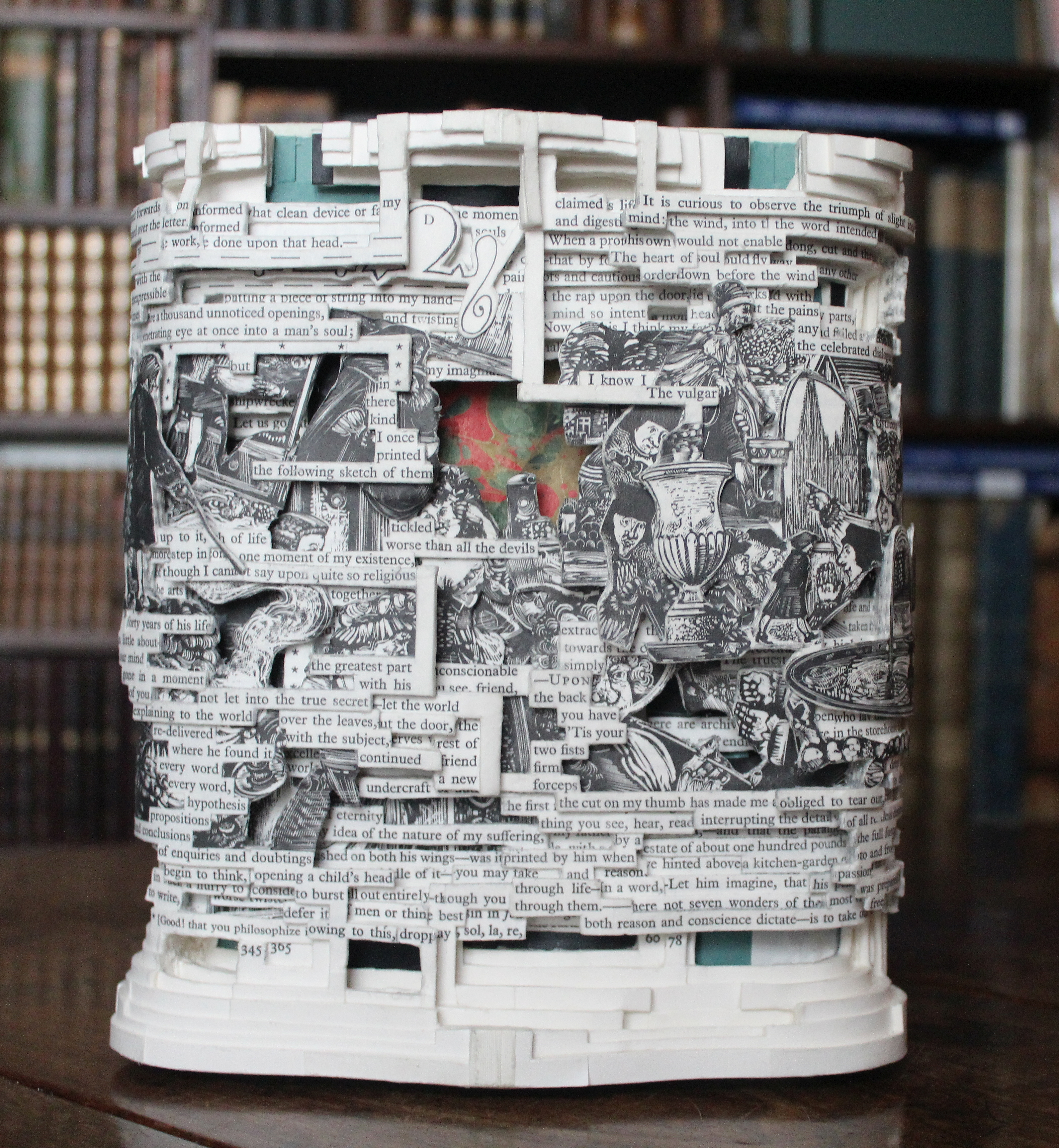 Top view of Brian Dettmer's artwork, 'excavated from a Folio Edition of The Life and Opinions of Tristram Shandy, Gentleman. The visible illustrations are by John Lawrence.